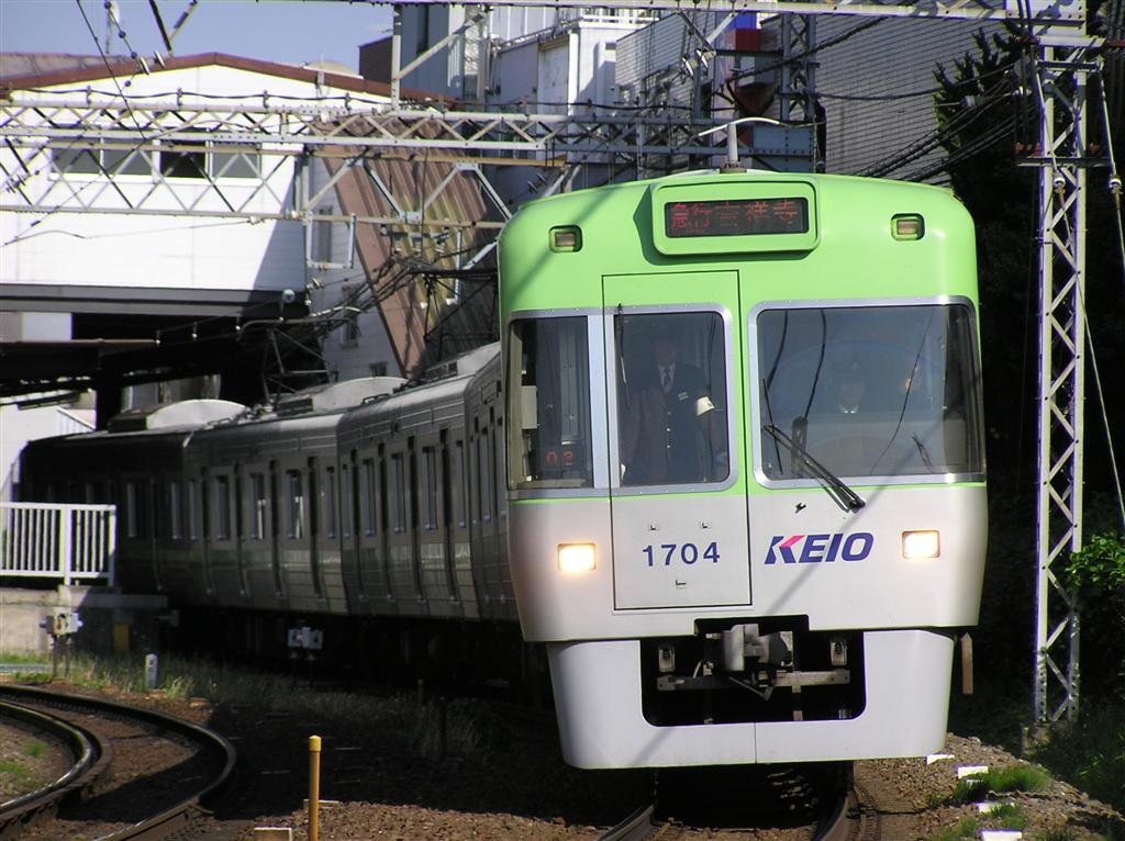 Keio 1000 series EMU set 1704 on the Keio Inokashira Line